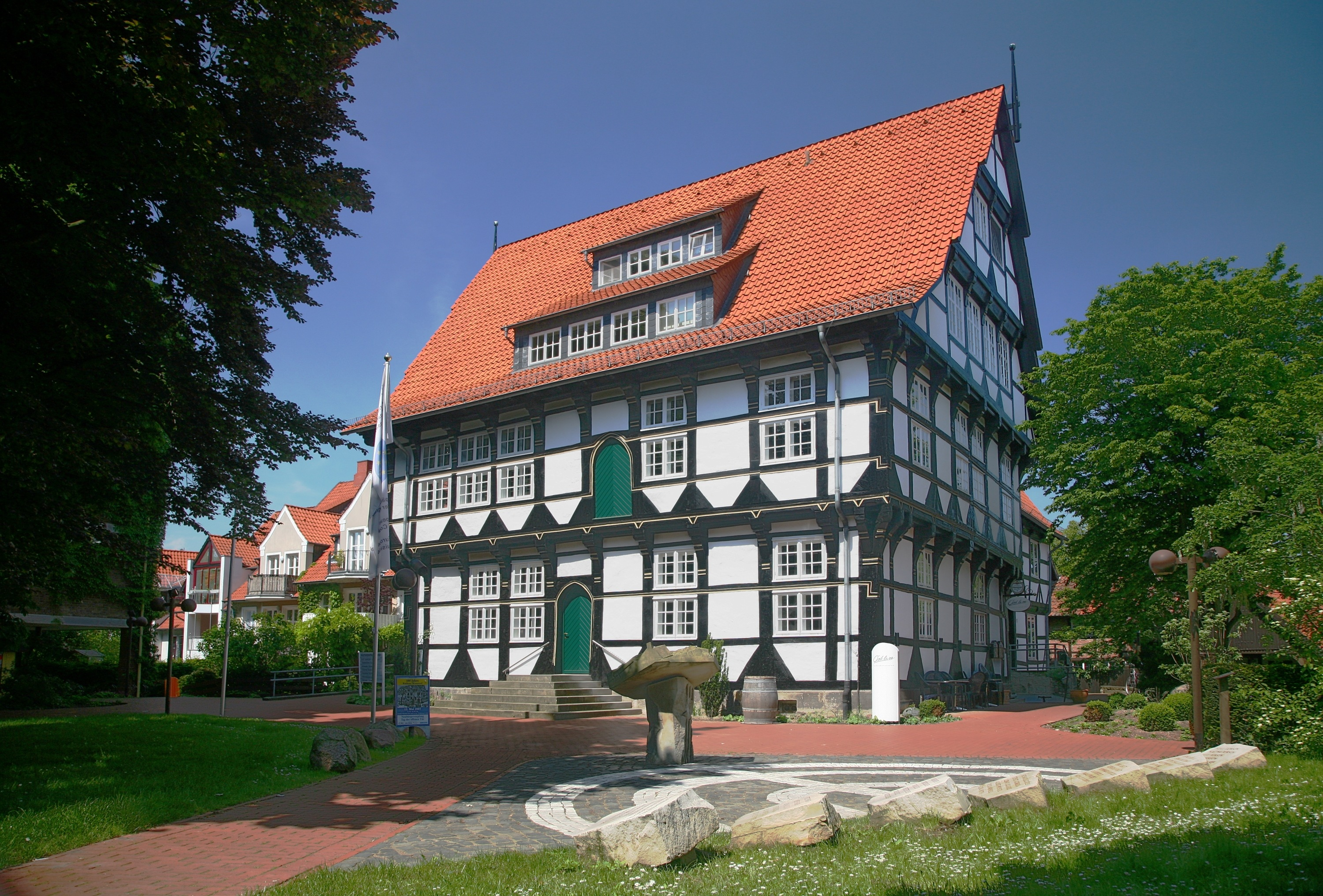 Abbey in Wunstorf, Germany